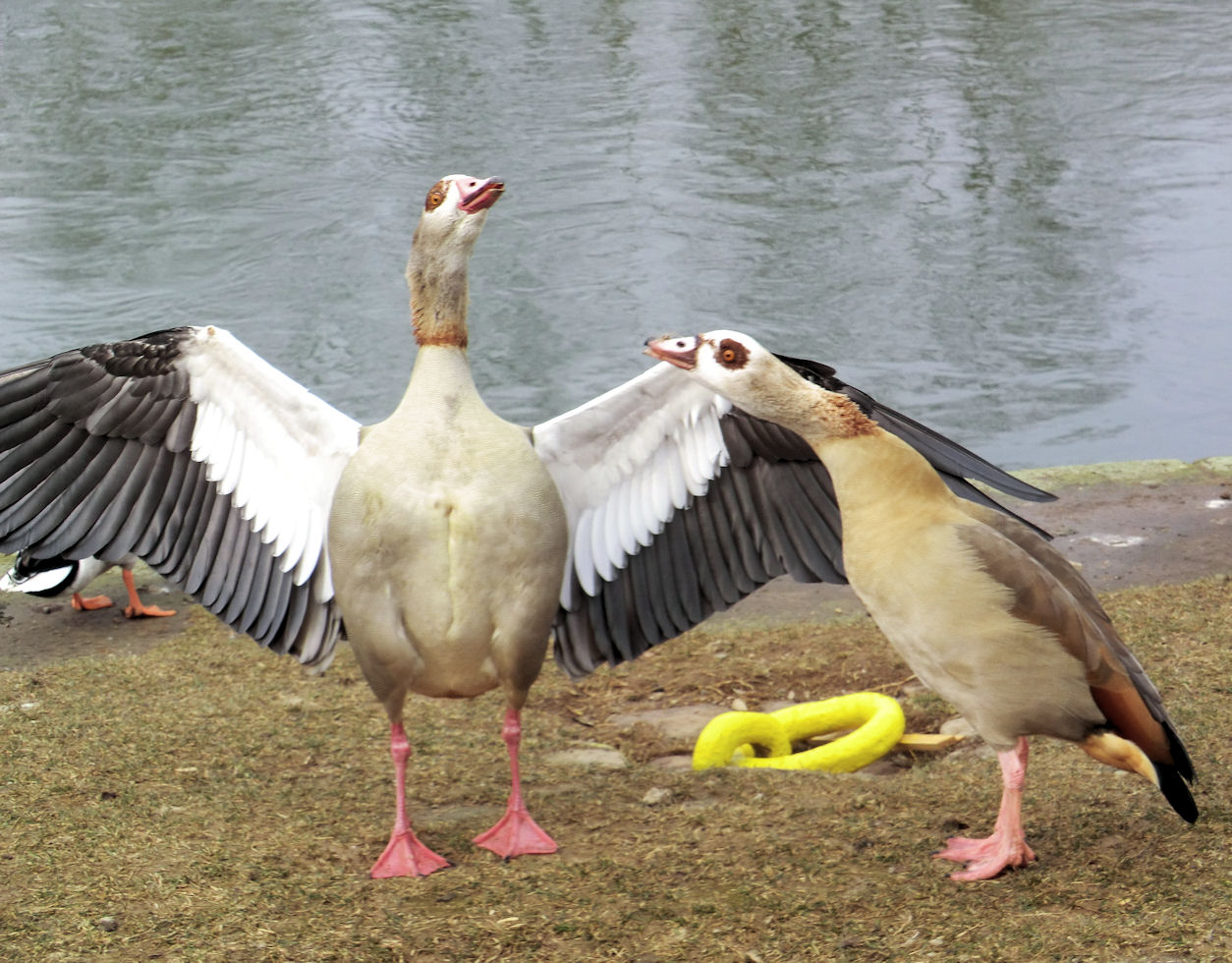 posing Egyptian Goose. Photographed in Germany, public area